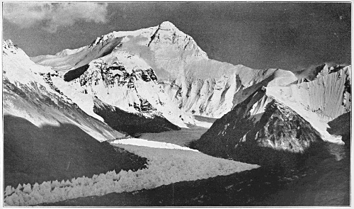 Everest from Rongbuk valley, nine miles northwest . Page 214 from Howard-Bury, C. K. (1922). Mount Everest the Reconnaissance, 1921 (1 ed.). New York, Longman & Green